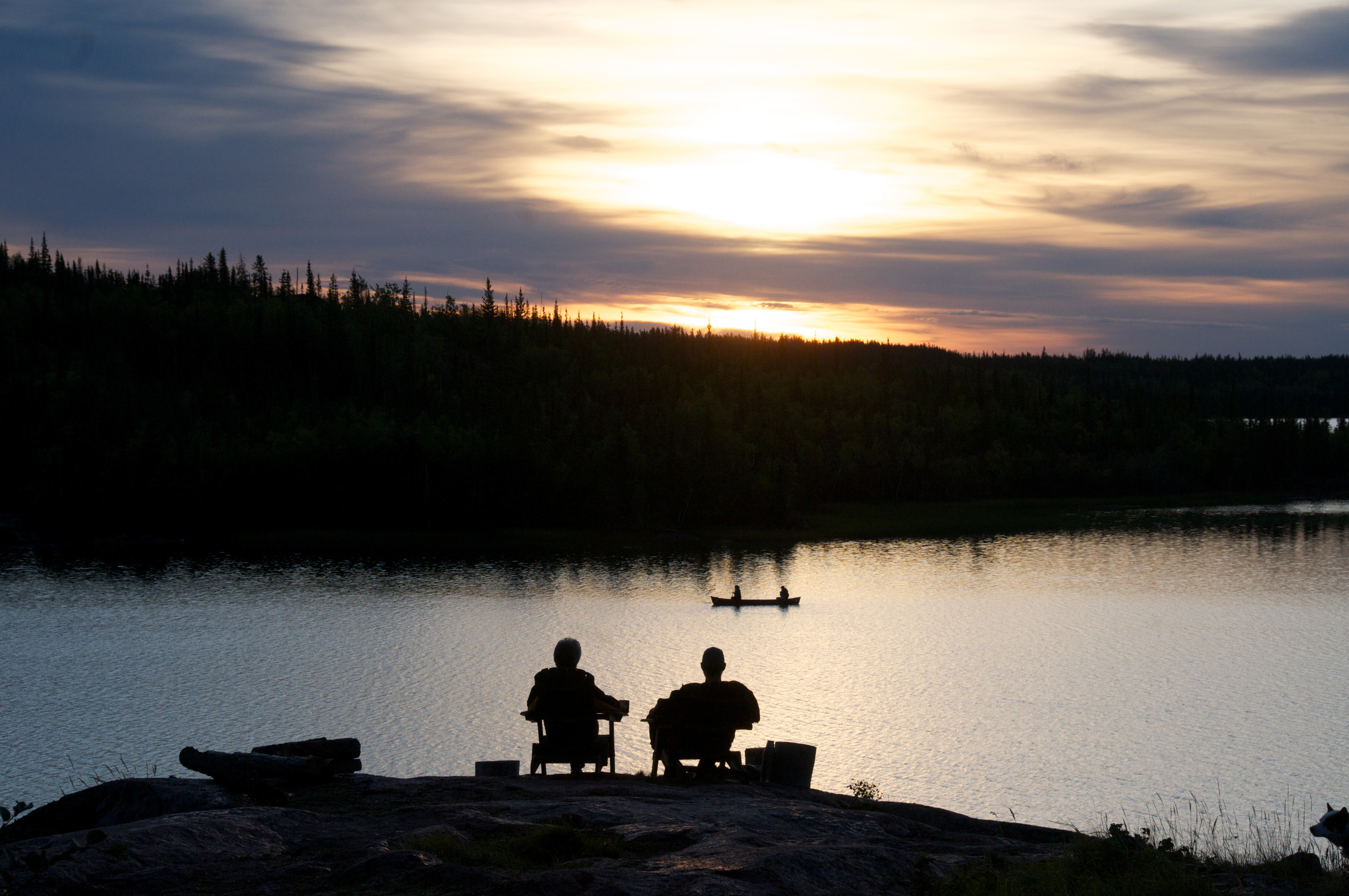 Blatchford Lake Evening